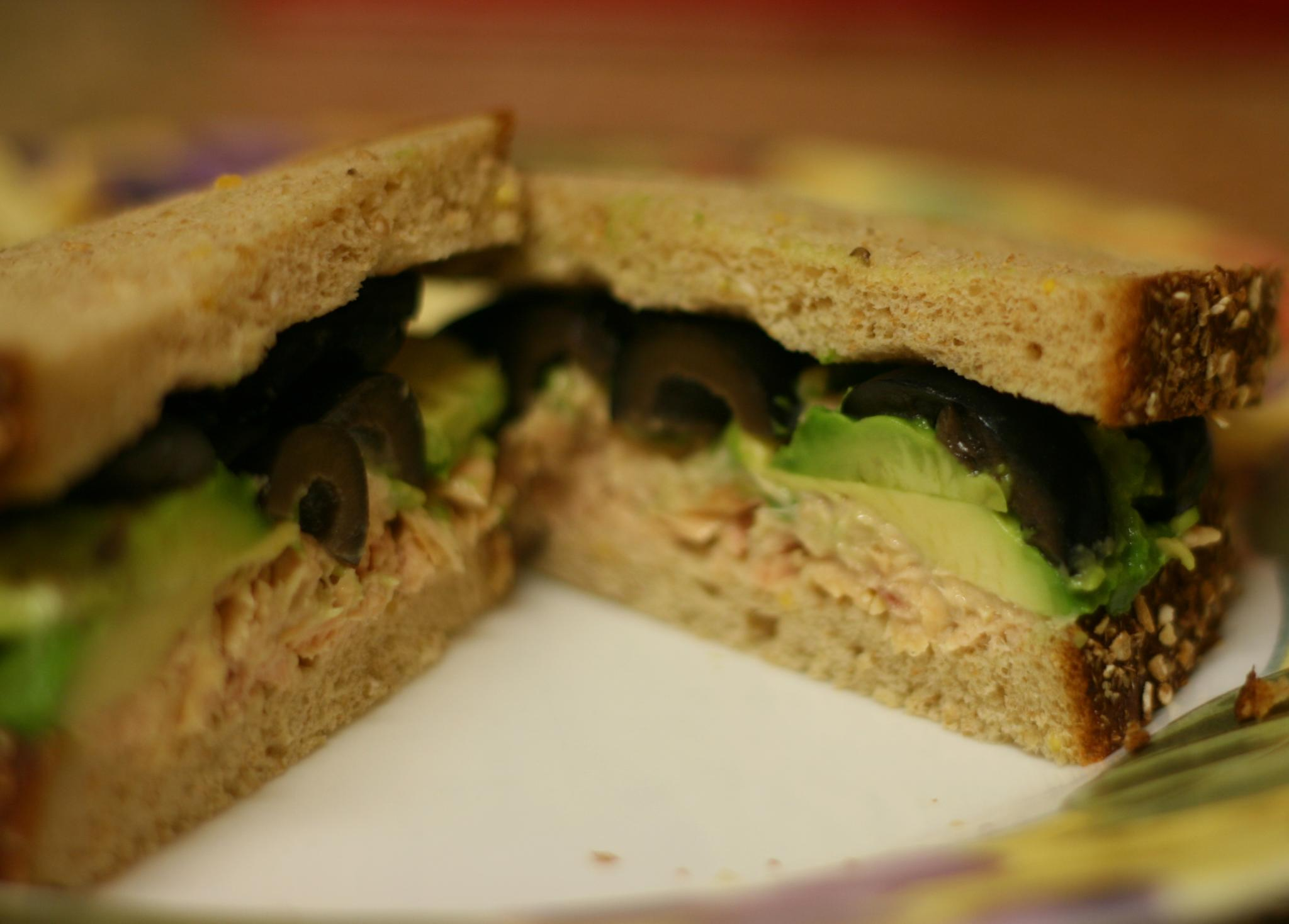 Tuna, avocado and black olive sandwich.